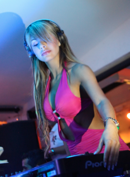 Hannah Gonzalez (DJ Hannah) from Cali, Colombia.